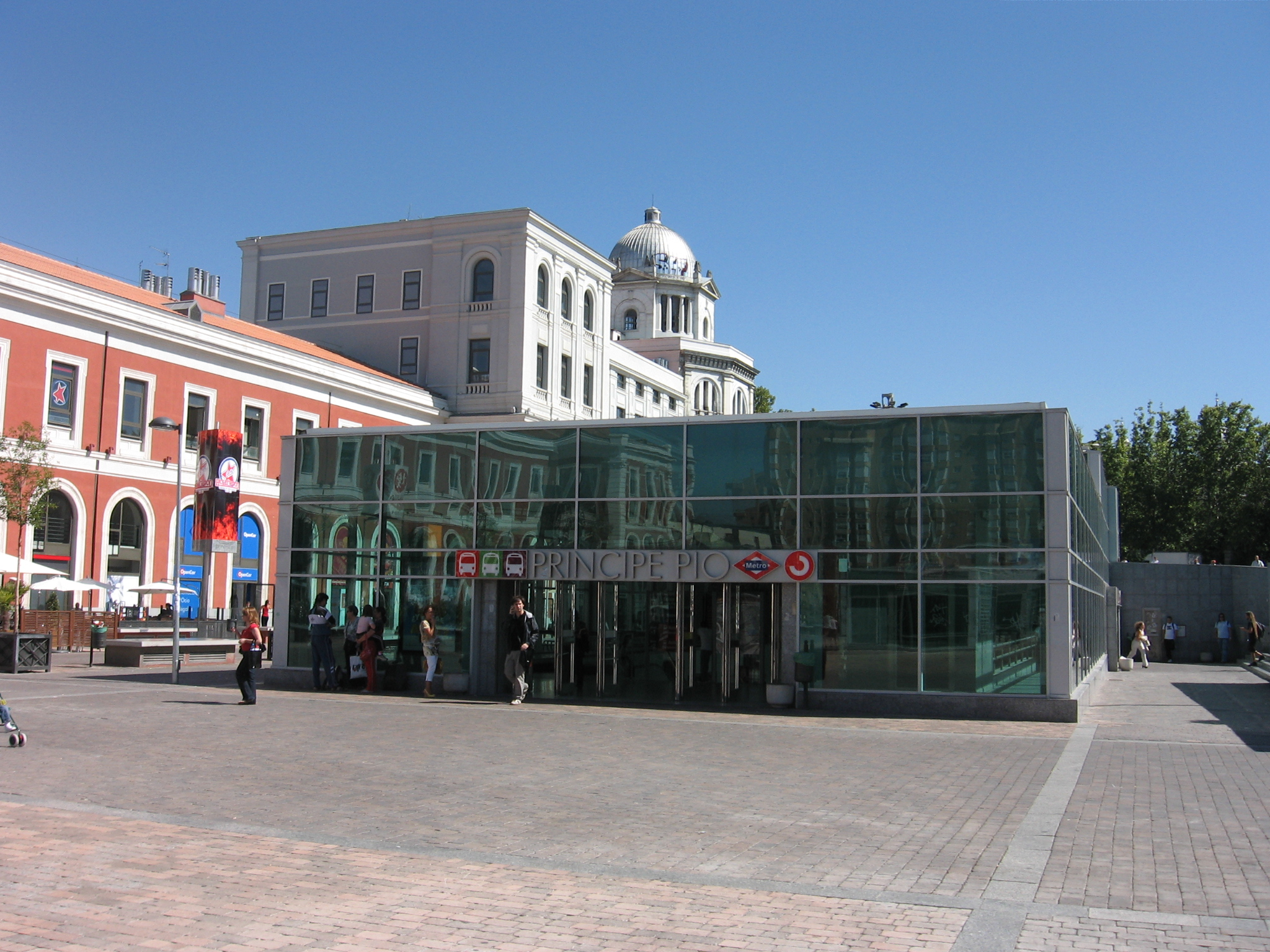 Príncipe Pío